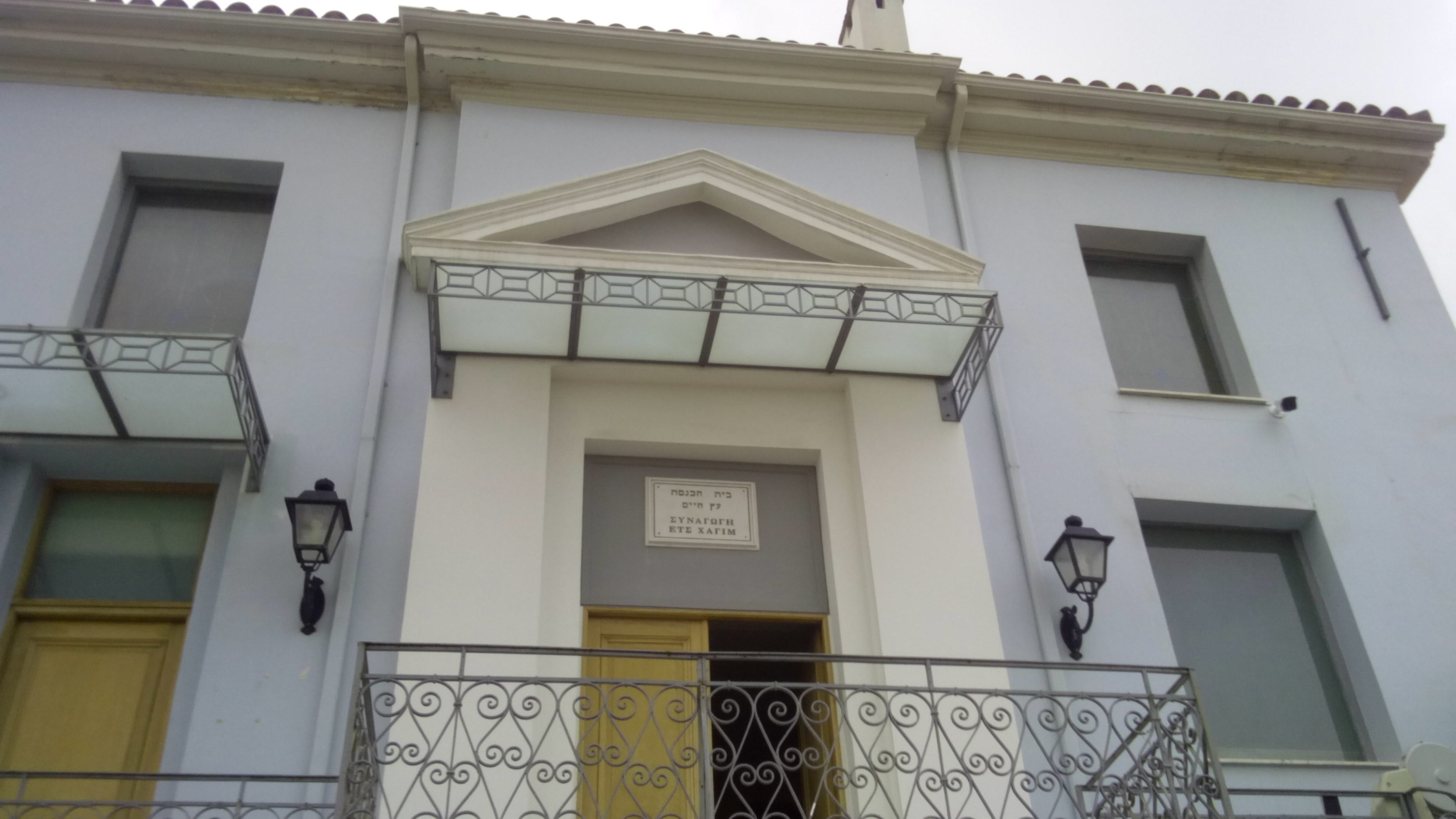 Etz Hayyim Synagogue in Athens, the entrance